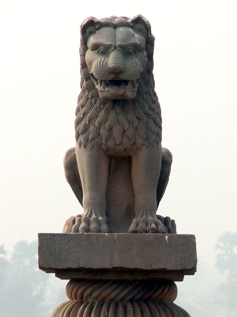 Asokan pillar at Vaishali, Bihar, India. Build by Emperor Asoka in about 250 BC, and still standing.